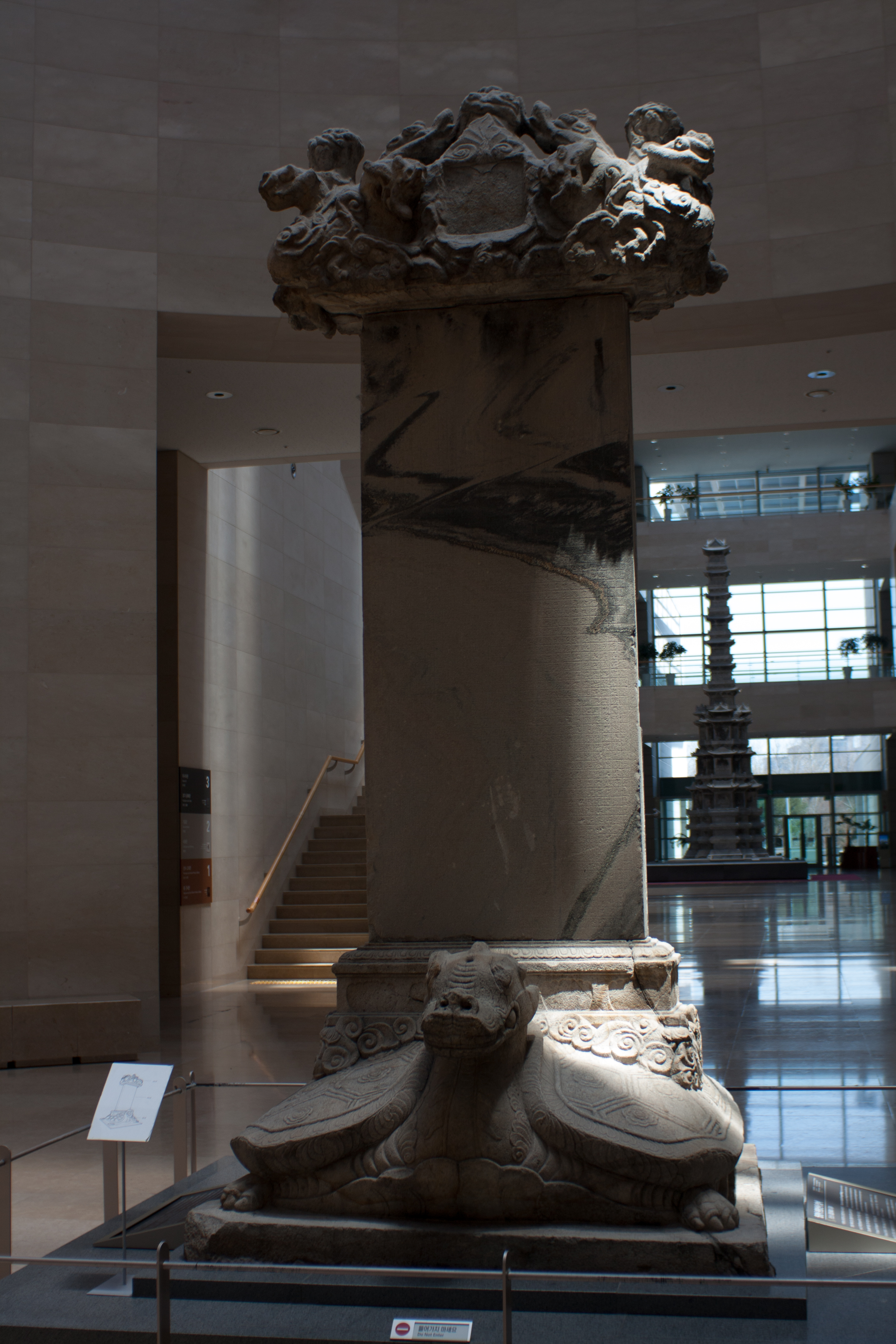 Stele of master Wonlang at Wolgwangsa temple site, Korea